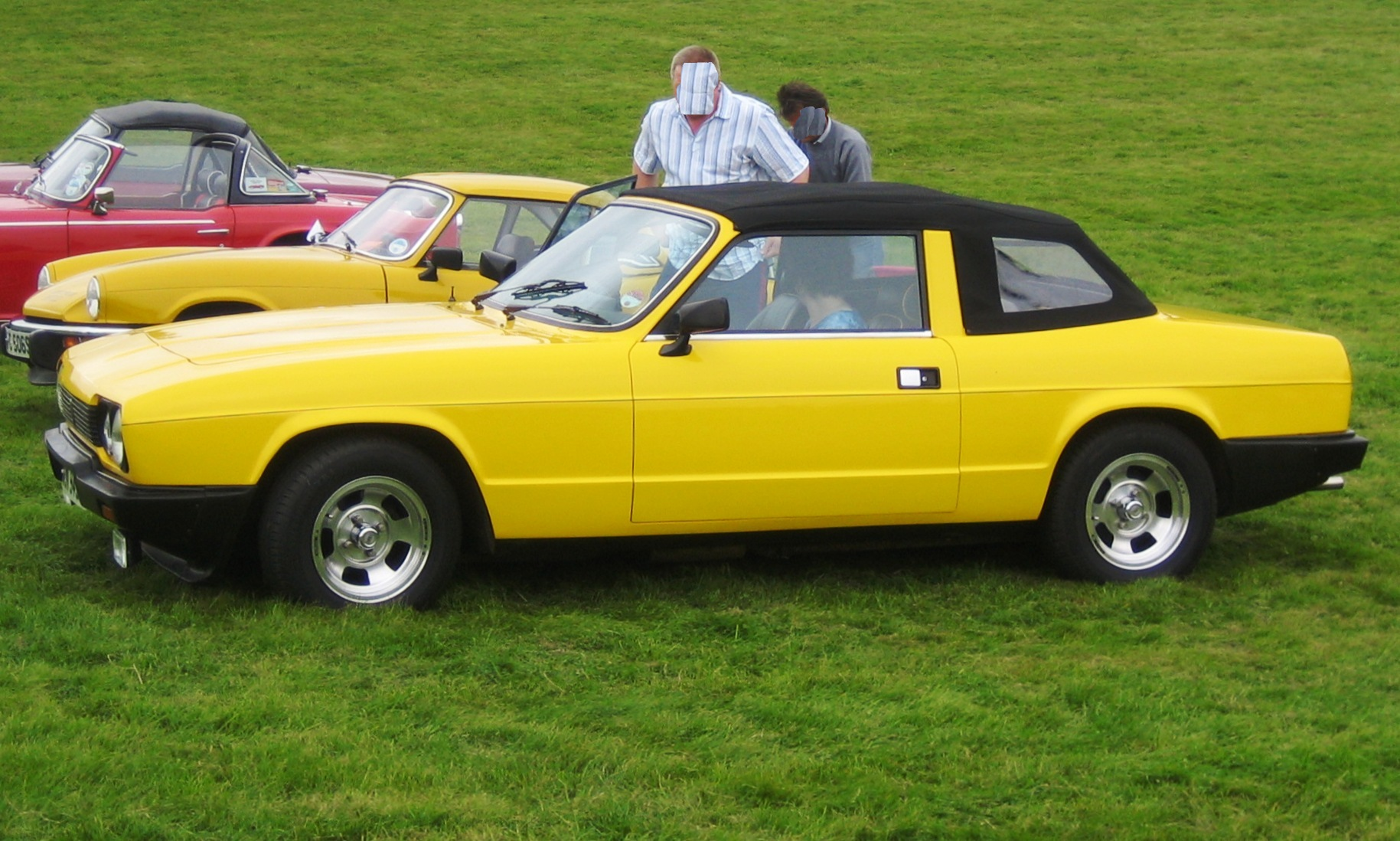 ca 1984 Reliant Scimitar GTC at Classic Car Show